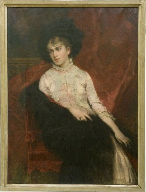 Portrait of Colette Dumas